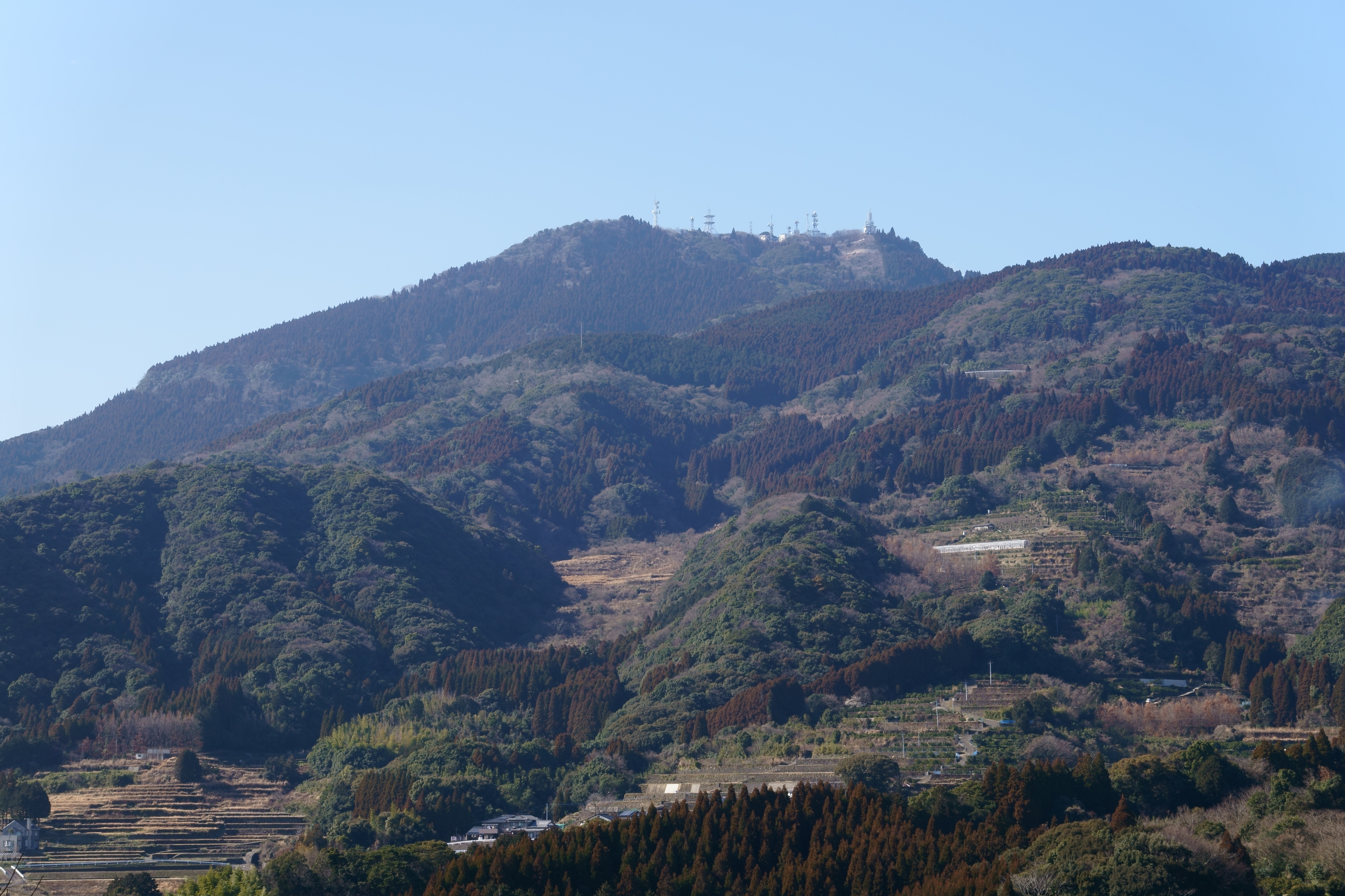 Mount Hachiman, taken from Homan Shirine in Itaya, Nishitakumachi, Taku city, Saga prefecture.